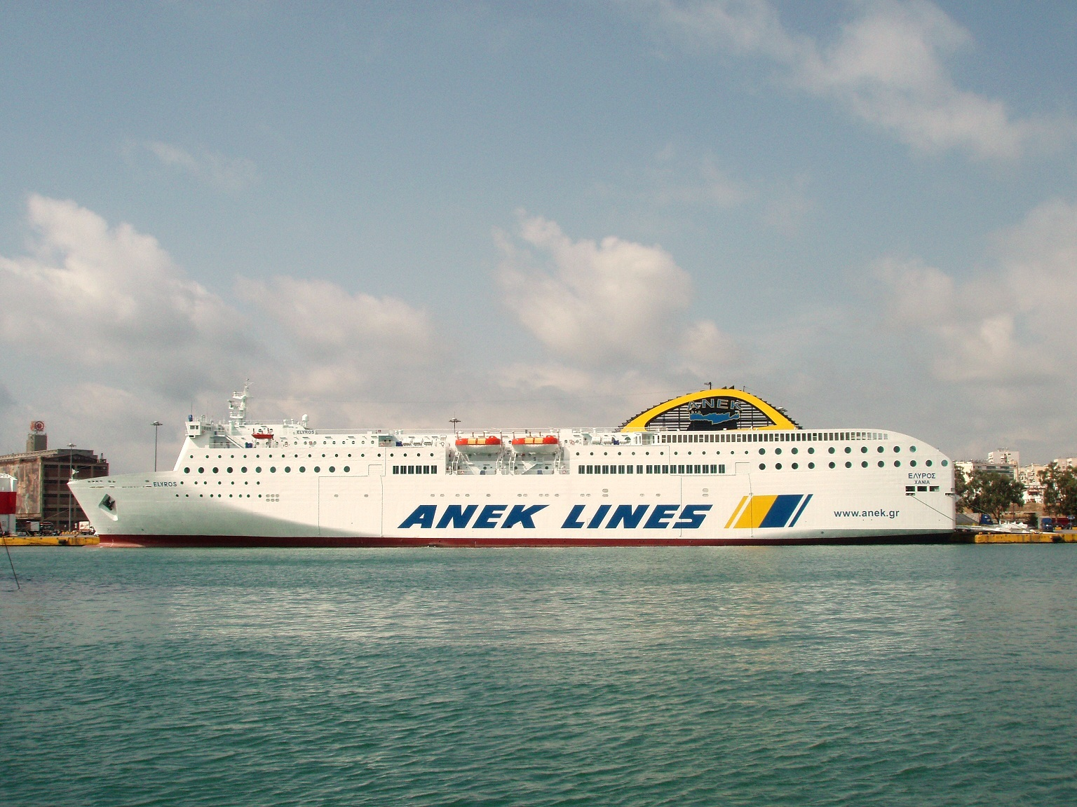 ANEK Lines F/B Elyros, SVOM, IMO 9178599, in Piraeus harbor.